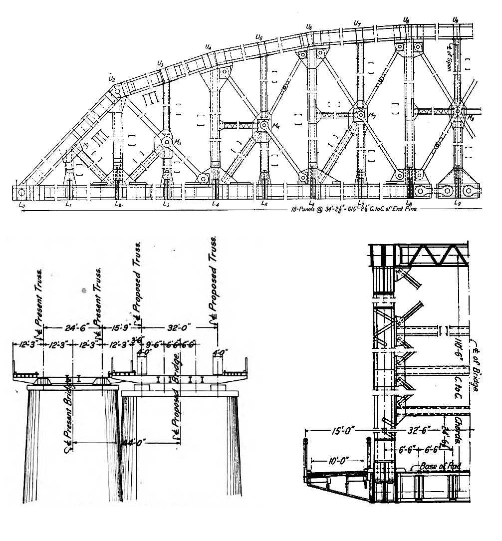 Detail drawing of piers (old and new) and truss of the K&I Bridge 1912, Louisville, Kentucky